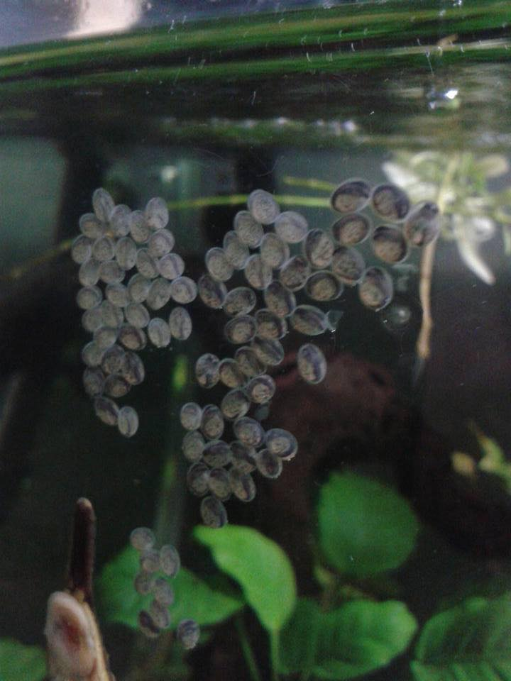 Farlowella acus with fertilized eggs